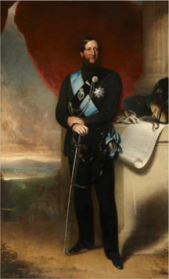 This is a low resolution image of an oil painting representing Frederick Stewart, 4th Marquess of Londonderry. This painting was probably painted in 1856 or 1857. It belongs to to the National Trust and is preserved at Mount Stewart.